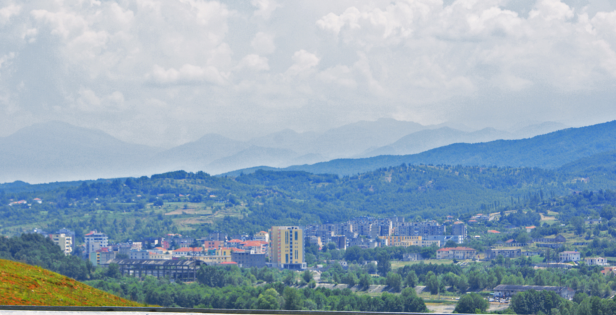 Rrëshen, Mirdita, Albania